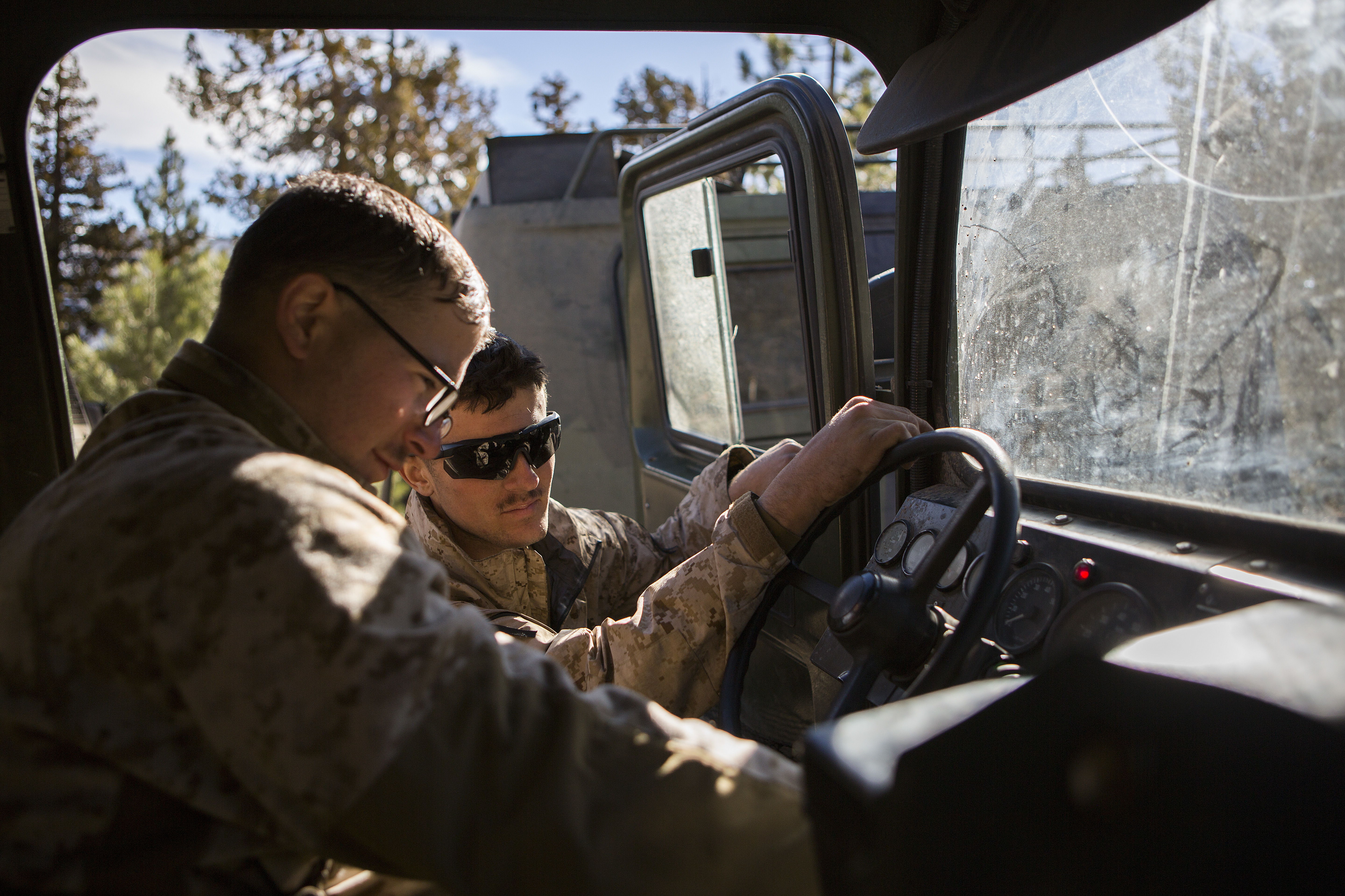 U.S. Marines Pfc. Cody Senkbeil, left, Lance Cpl. Ryan Waters, motor transportation operators with Combat Logistics Battalion 26, 2nd Marine Logistics Group, fix a broken Small Unit Support Vehicle (SUSV) during their field exercise at the U.S. Marine Corps Mountain Warfare Training Center (MWTC) Bridgeport, Calif., Feb. 5, 2015. MWTC trains Marines across the warfighting functions for operations in mountainous, high altitude, and cold weather environments in order to enhance a unit's ability to shoot, move, communicate, sustain, and survive in mountainous regions of the world. (U.S. Marine Corps photo by Sgt. Anthony L. Ortiz / Released)